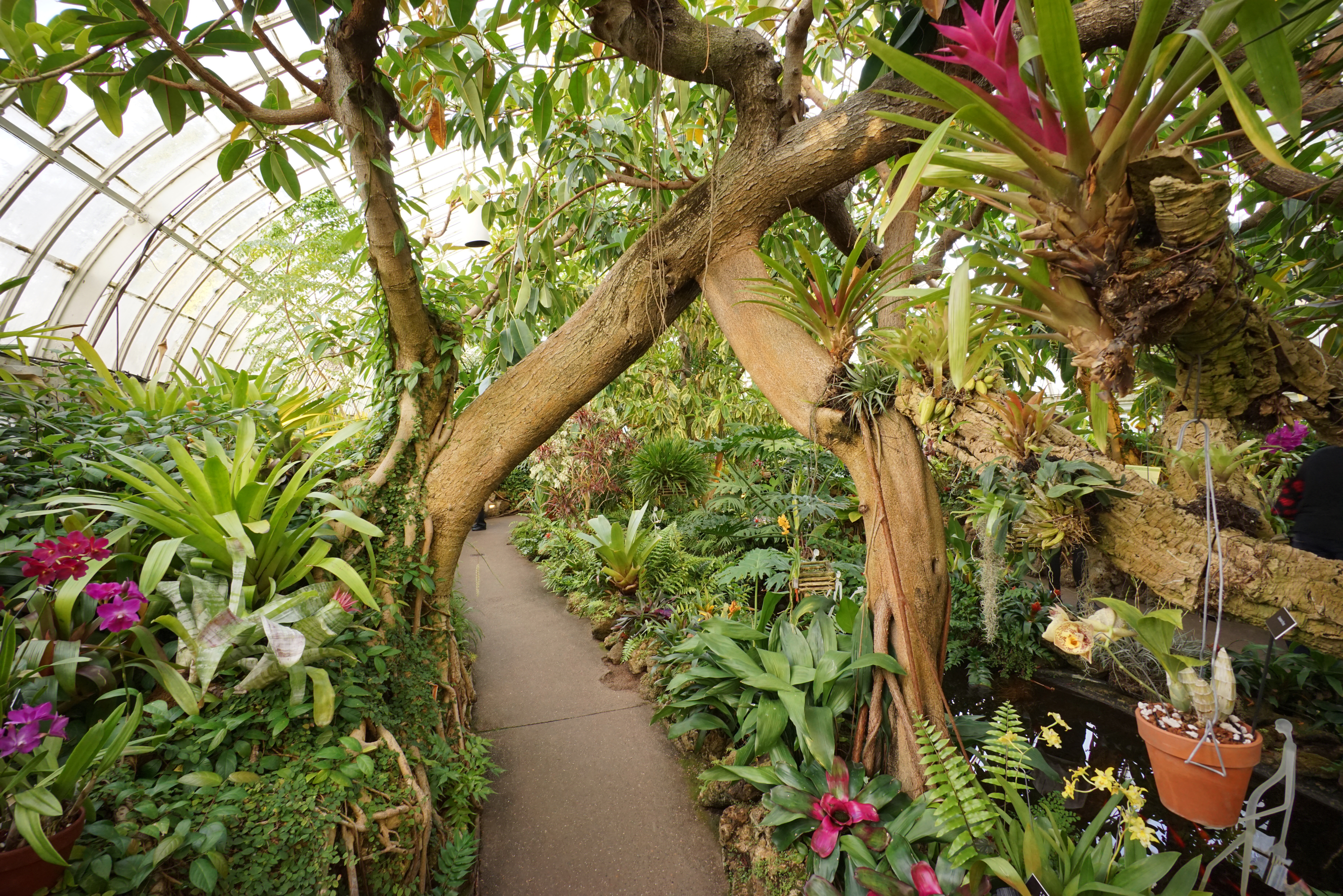 The Phipps Conservatory and Botanical Gardens is a complex of buildings and grounds set in Schenley Park, Pittsburgh, Pennsylvania. Founded in 1893, the gardens serve to educate and entertain the people of Pittsburgh with formal gardens.